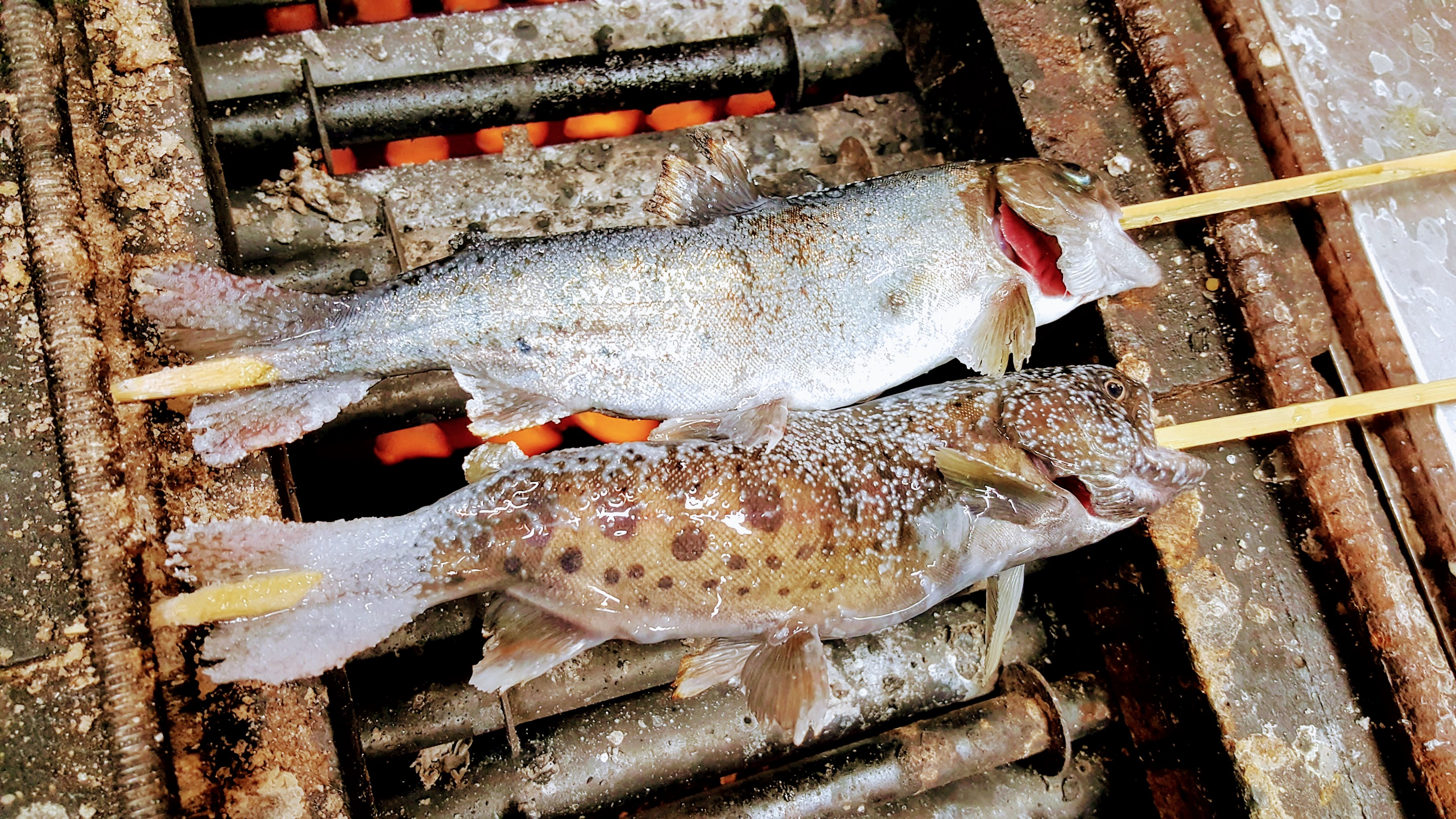 Grilled salted freshwater Fish "Amago"” Oncorhynchus masou macrostomus